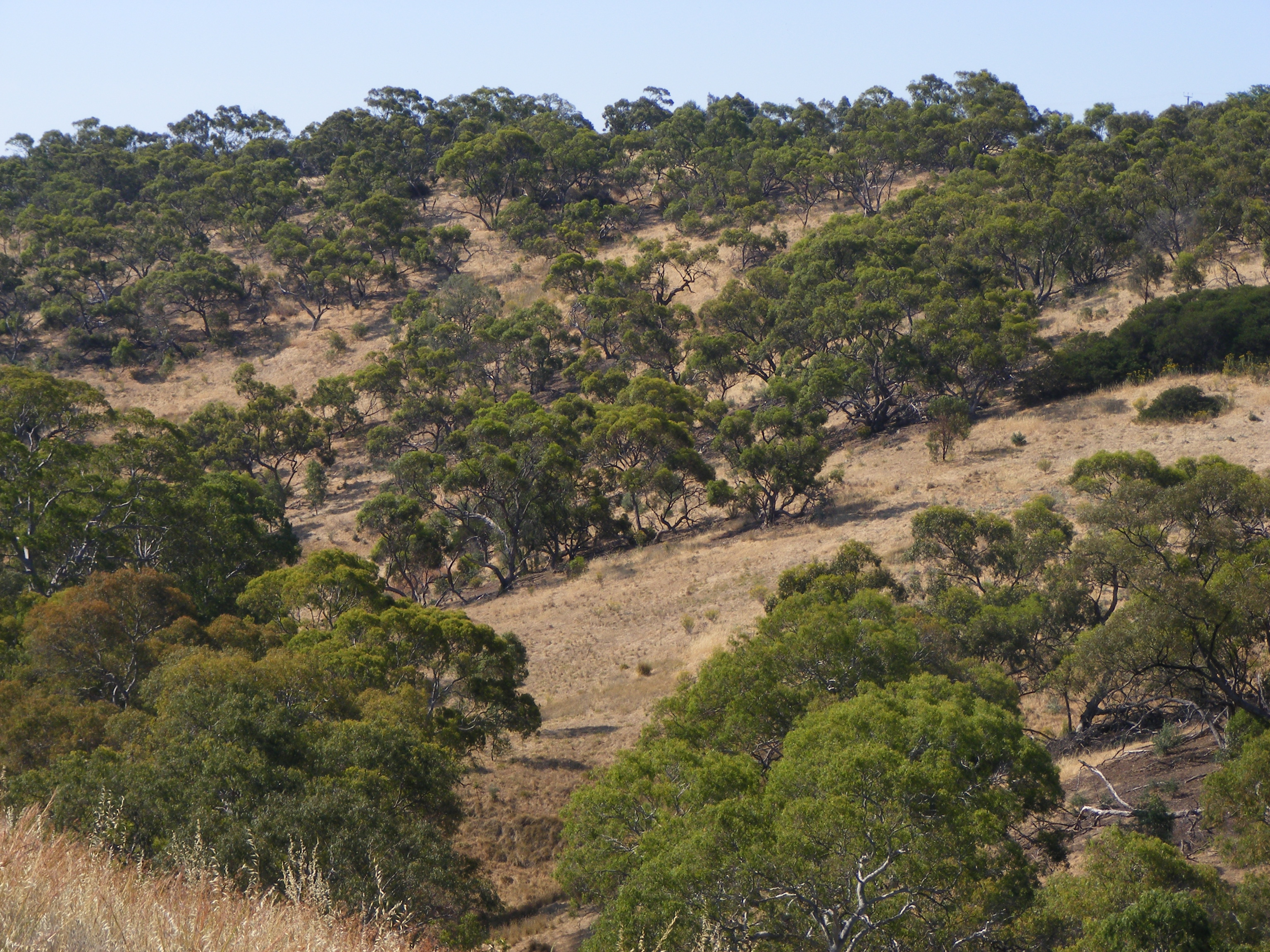 view of Cobbler creek reserve, Adelaide, South Australia showing the open woody grassland that is characteristic of the park.